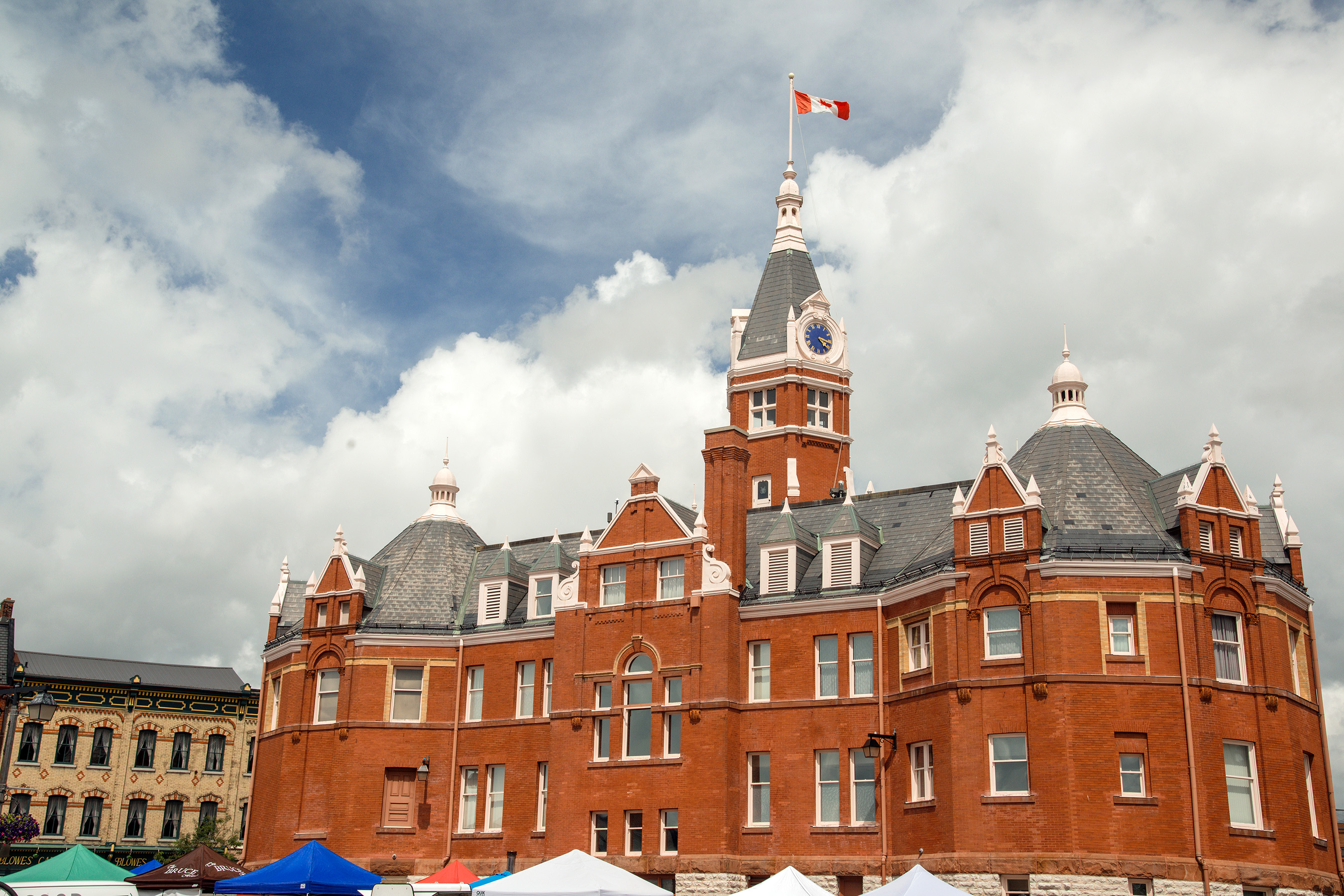 City Hall in Stratford, Ontario, Canada